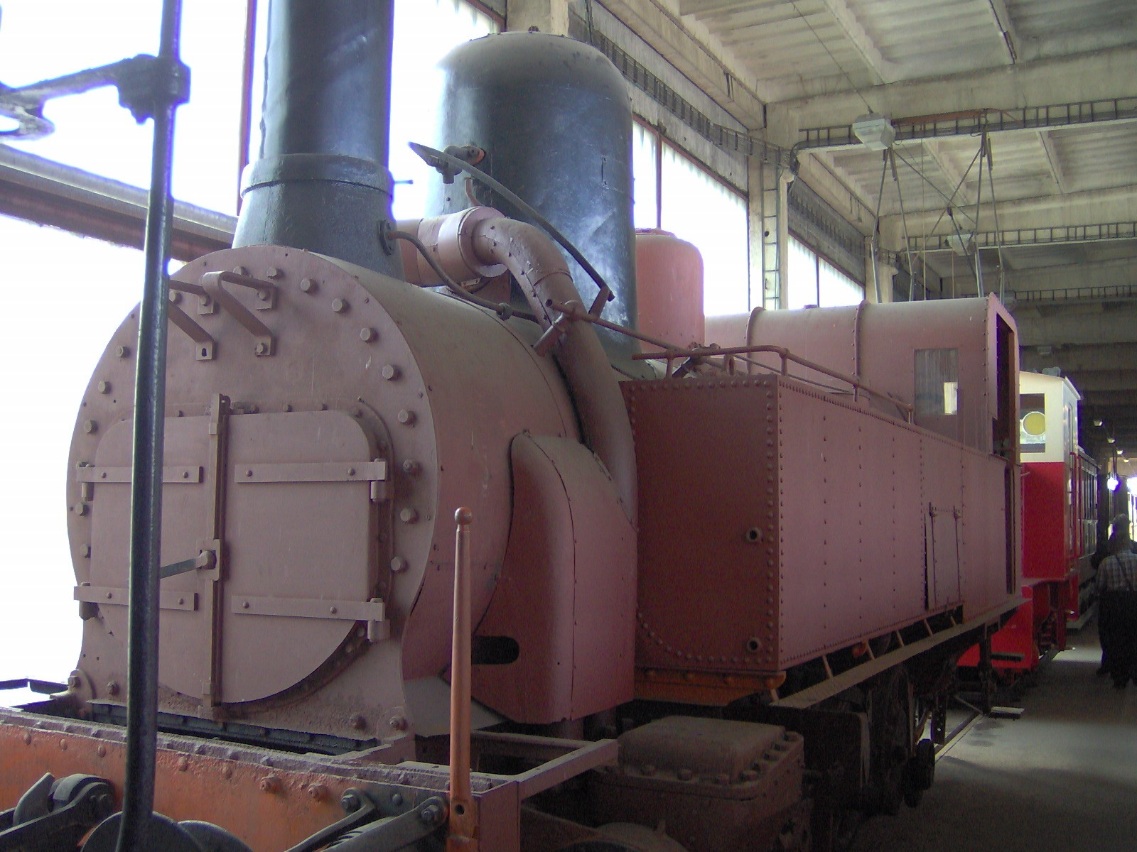 Steam locomotive 400.901 "Žerotín" in Brno, Czech Republic